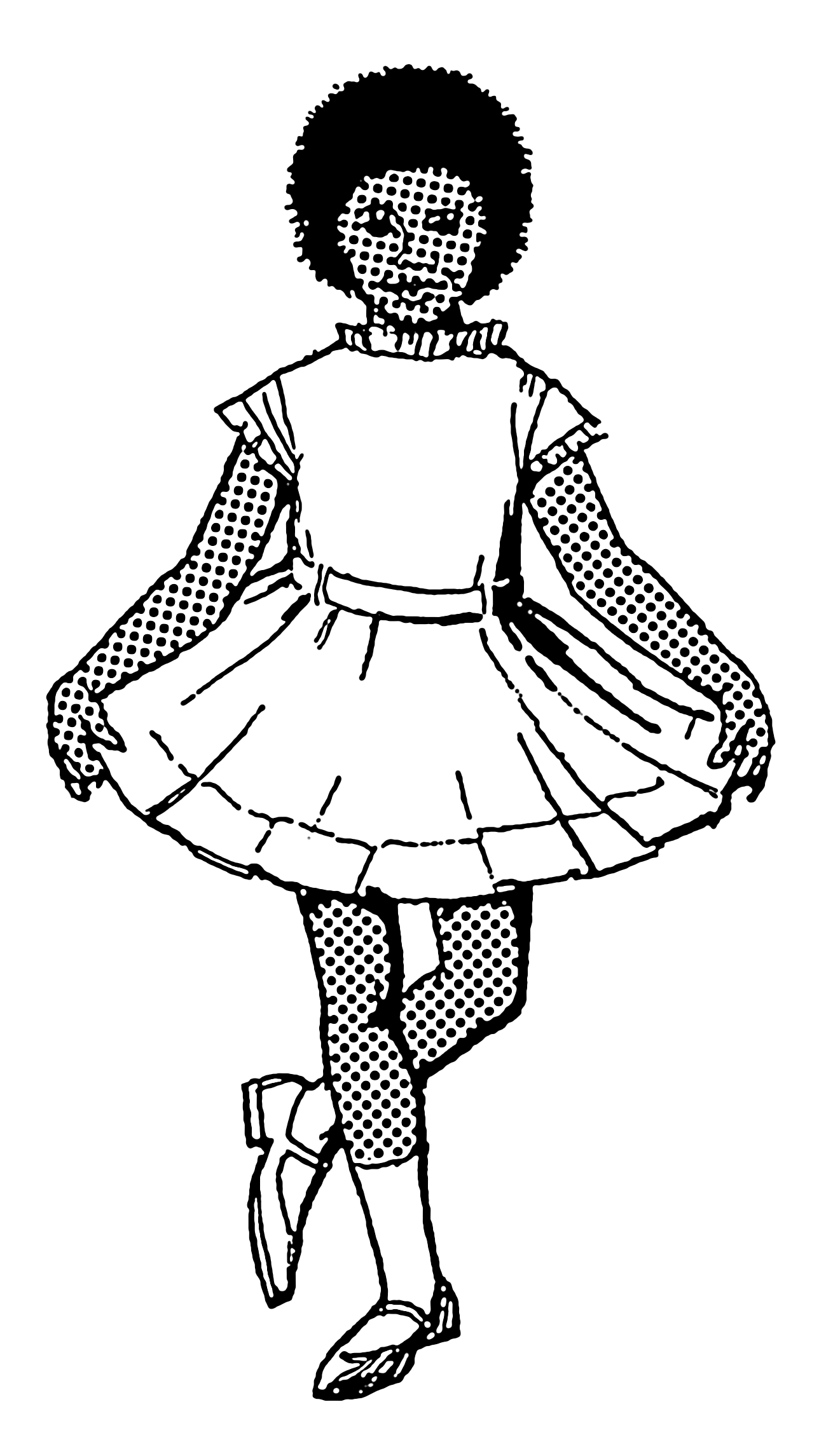 Line art drawing of a girl curtsying.